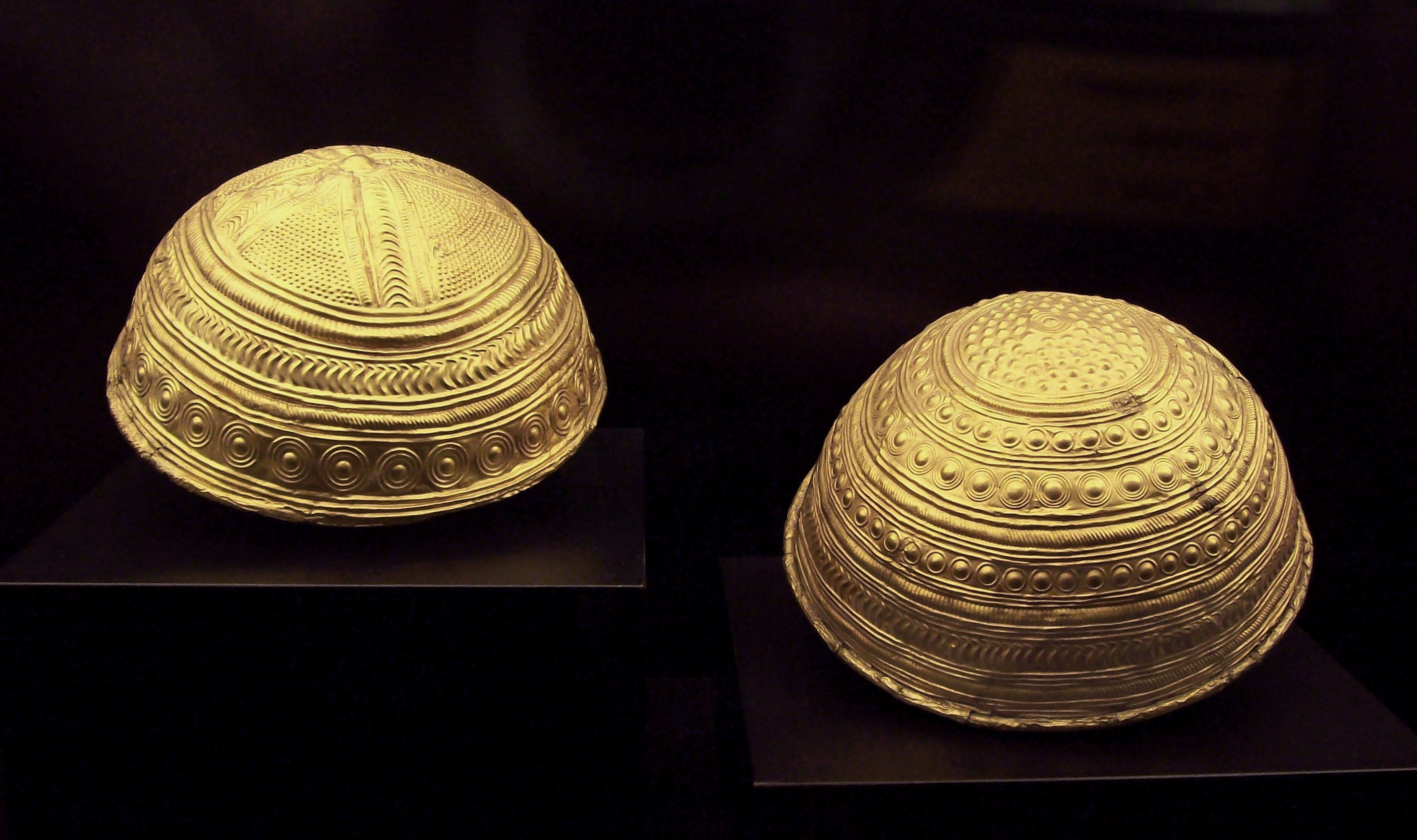 Two bowls from the late Bronze Age.